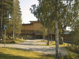 A picture of Länsimetsä school in Vaasa, Finland